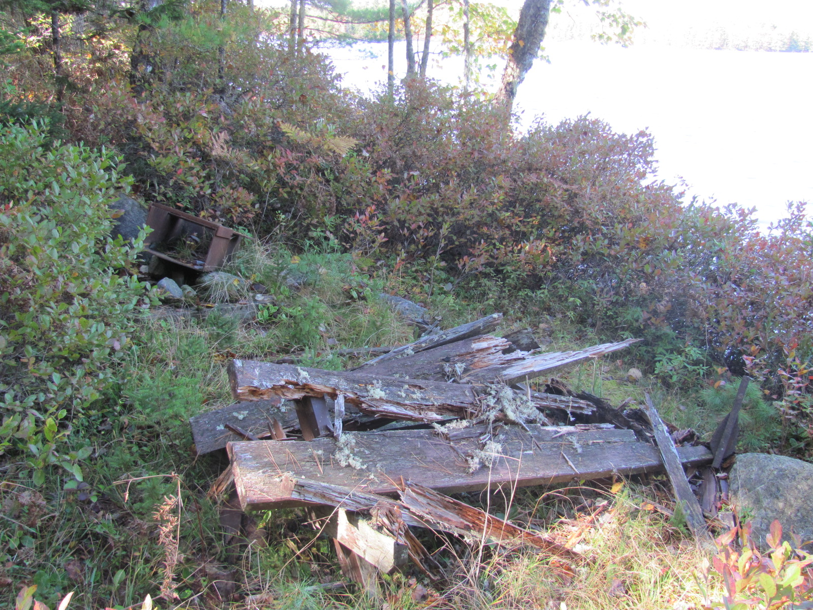 Abandoned Parks Canada campsite at Luxton Lake in Kejimkujik National Park, Nova Scotia with collapsed picnic table and overgrown fire pit.